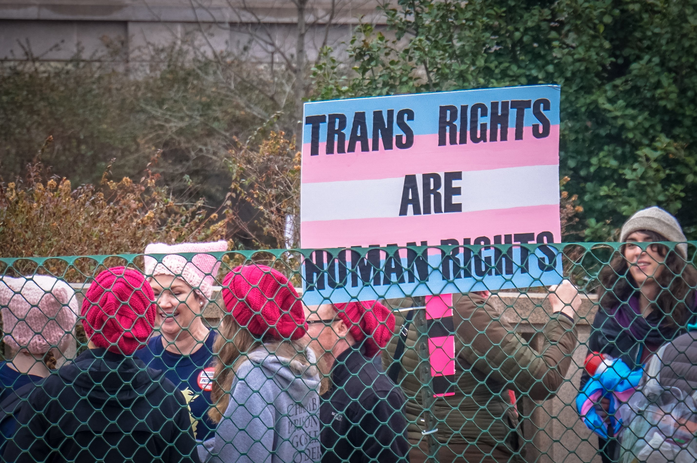 2017.01.21 Women's March Washington, DC USA 00083 Women's March on Washington